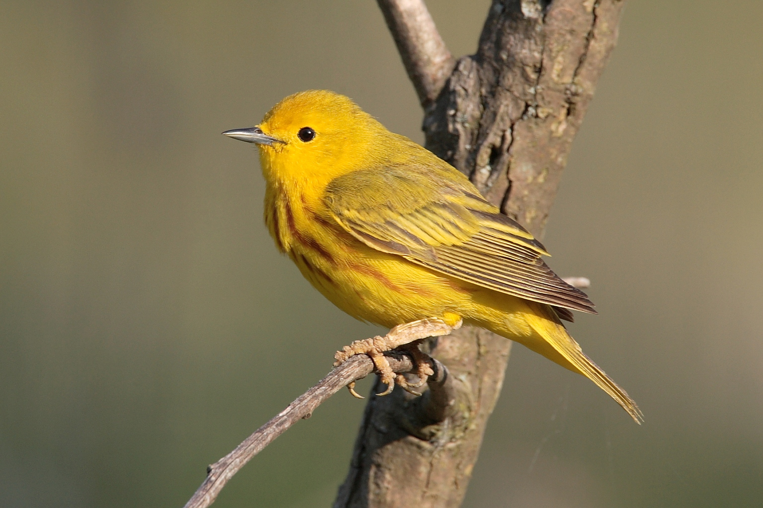 Male Yellow Warbler (Dendroica aestiva, synonym D. petechia aestiva). Prince Edward Point National Wildlife Area, Ontario, Canada.